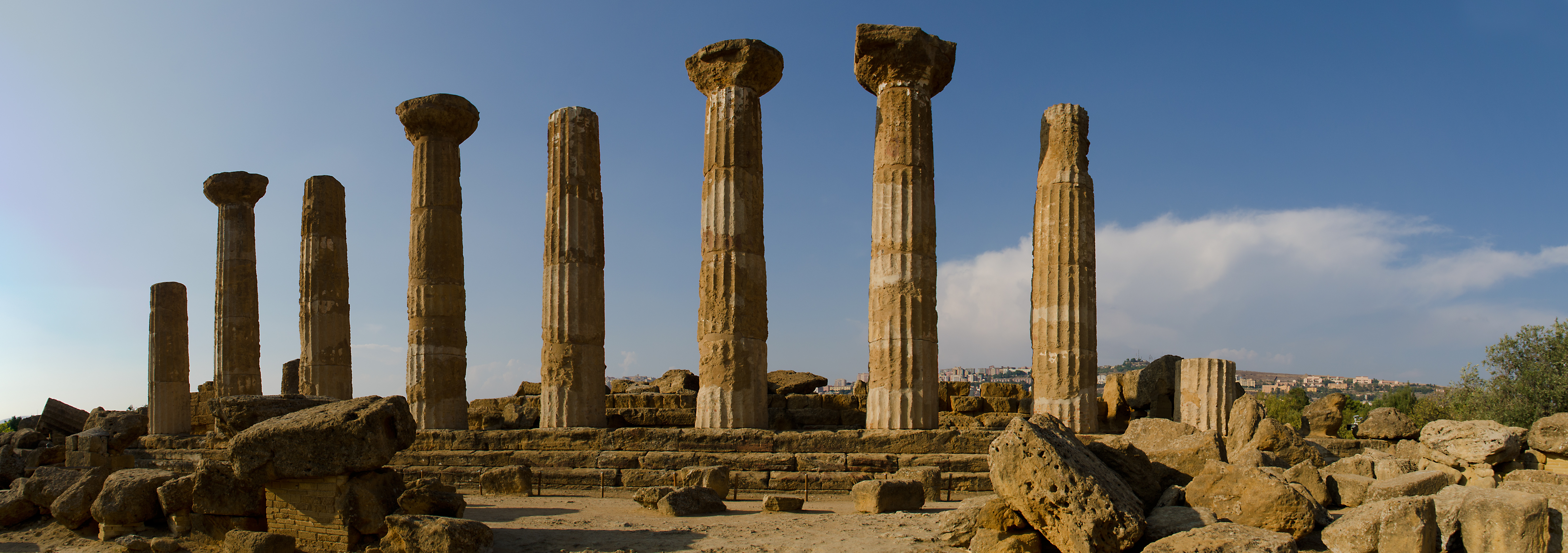 Valley of Temples, Agrigento, Sicily. Heracles Temple